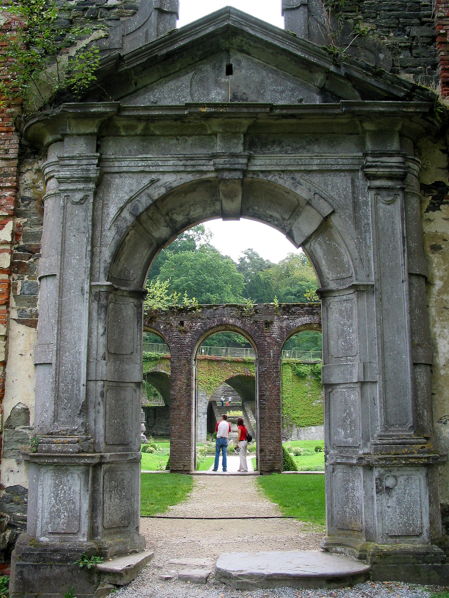 Villers-la-Ville (Belgium), Monumental gate of the Abbot's palace - Classical style (1721).